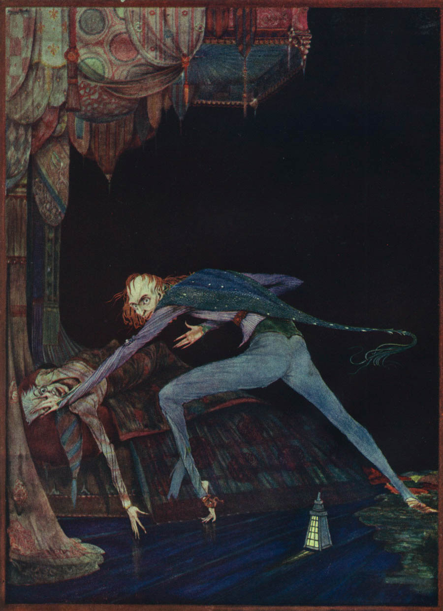 Illustration of "The Tell-Tale Heart" by Harry Clarke, circa 1919